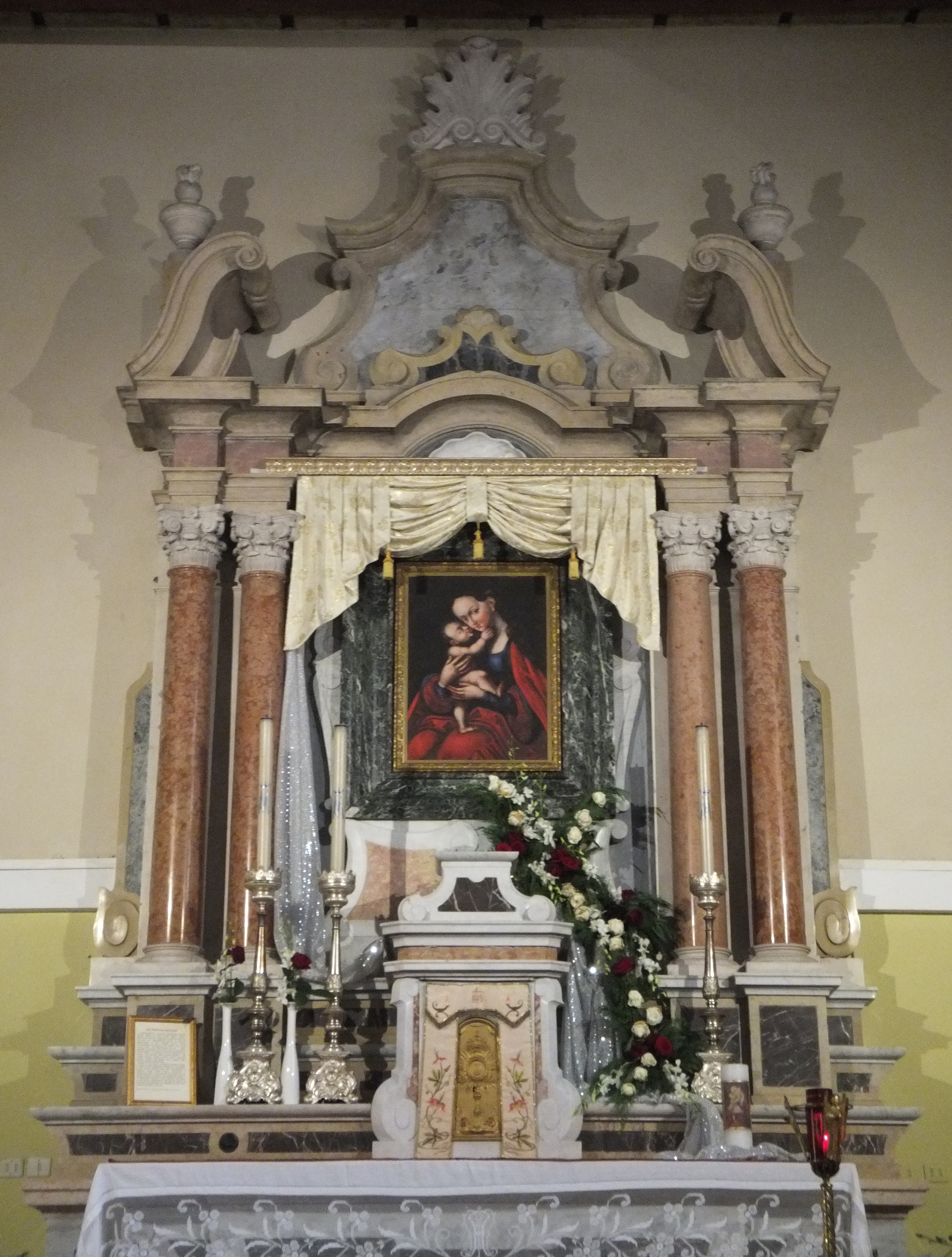 Segonzano (Trentino, Italy) - Sanctuary of the Madonna of Aid - Main altar